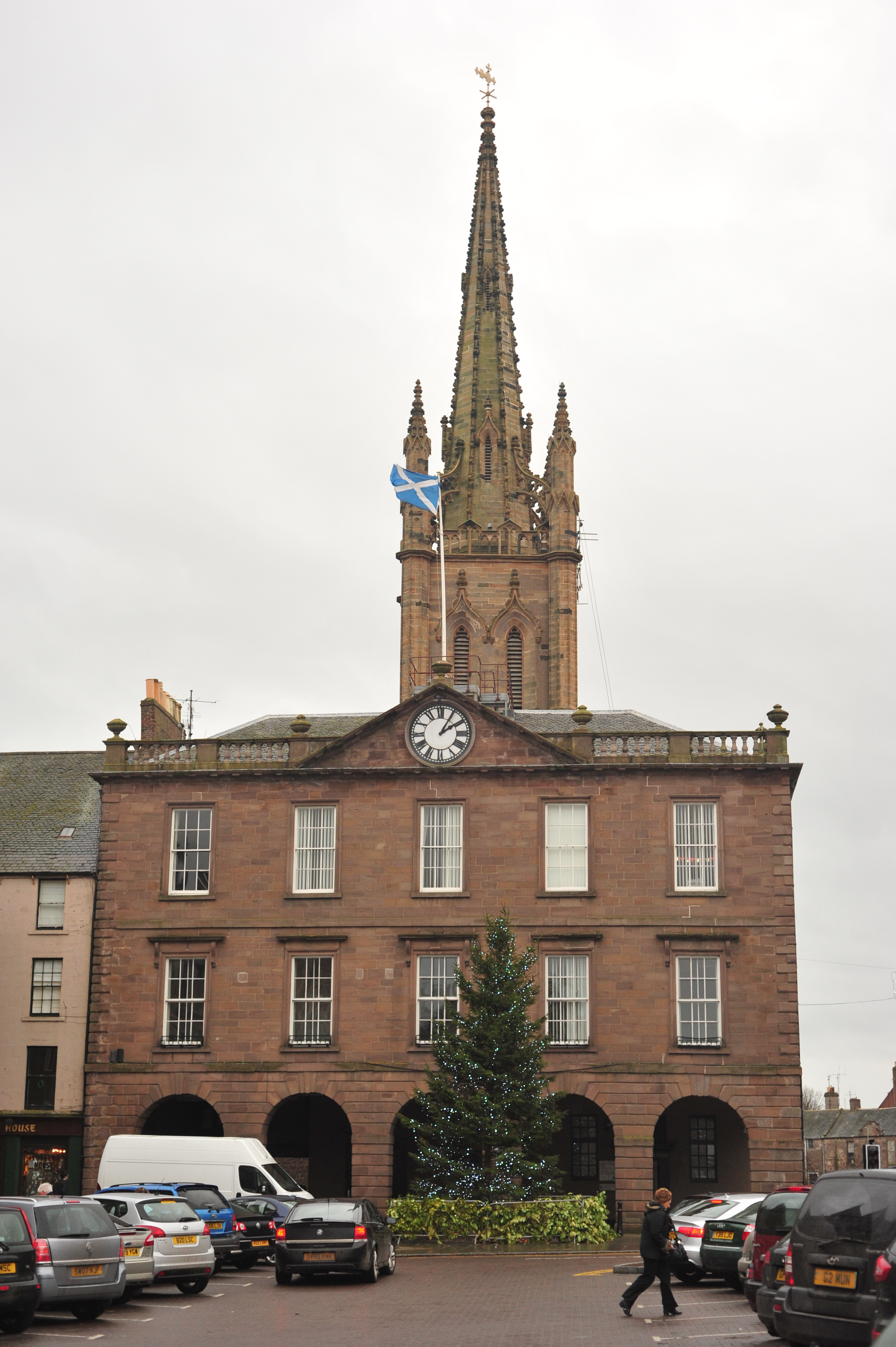 Montrose Town House, High Street Montrose. A Category A listed building. The steeple behind the building belongs to the Category A listed Montrose Parish Church (Listed building No. 38084).